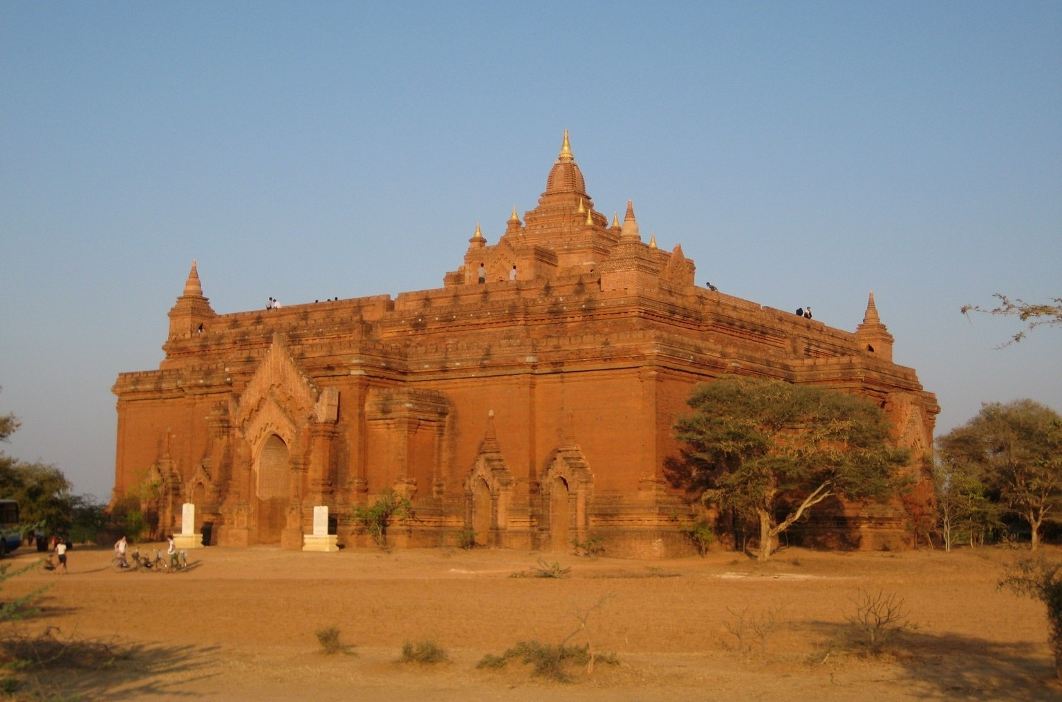 Bagan